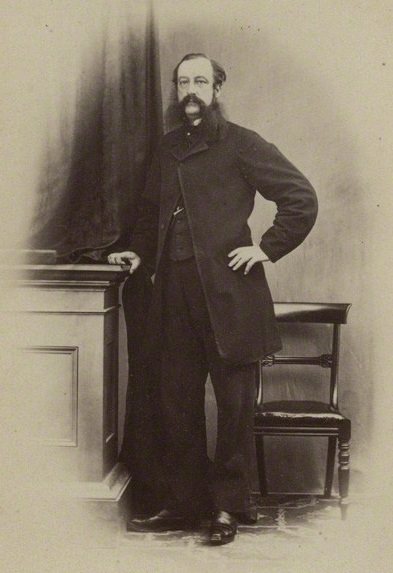 by Unknown photographer, albumen carte-de-visite, 1860s